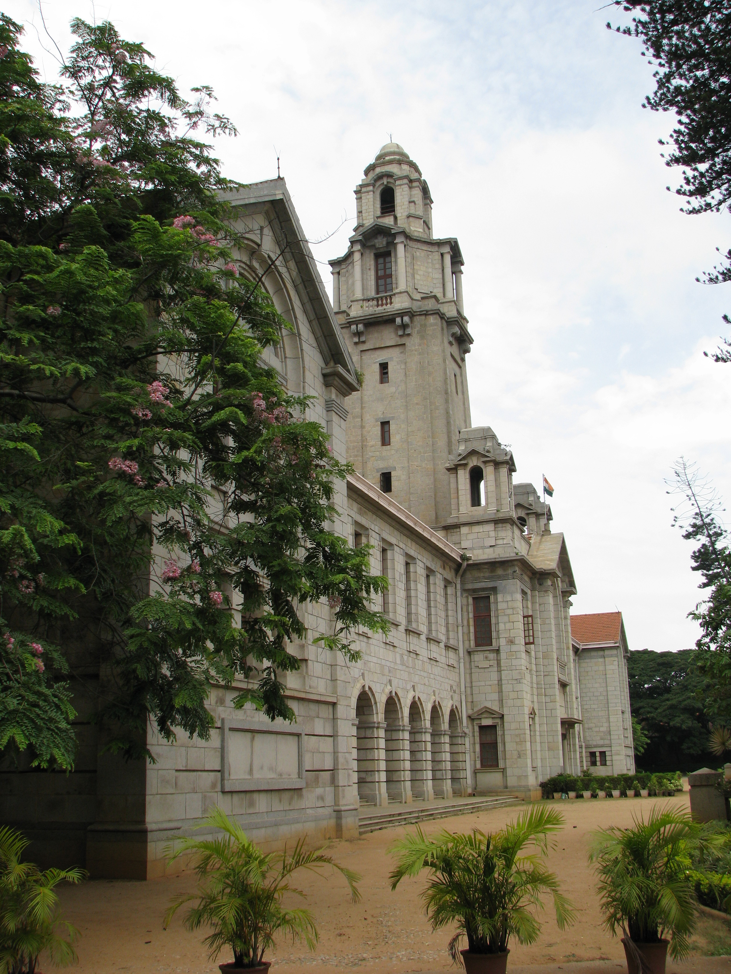 Administrative Building of IISc, bangalore, india